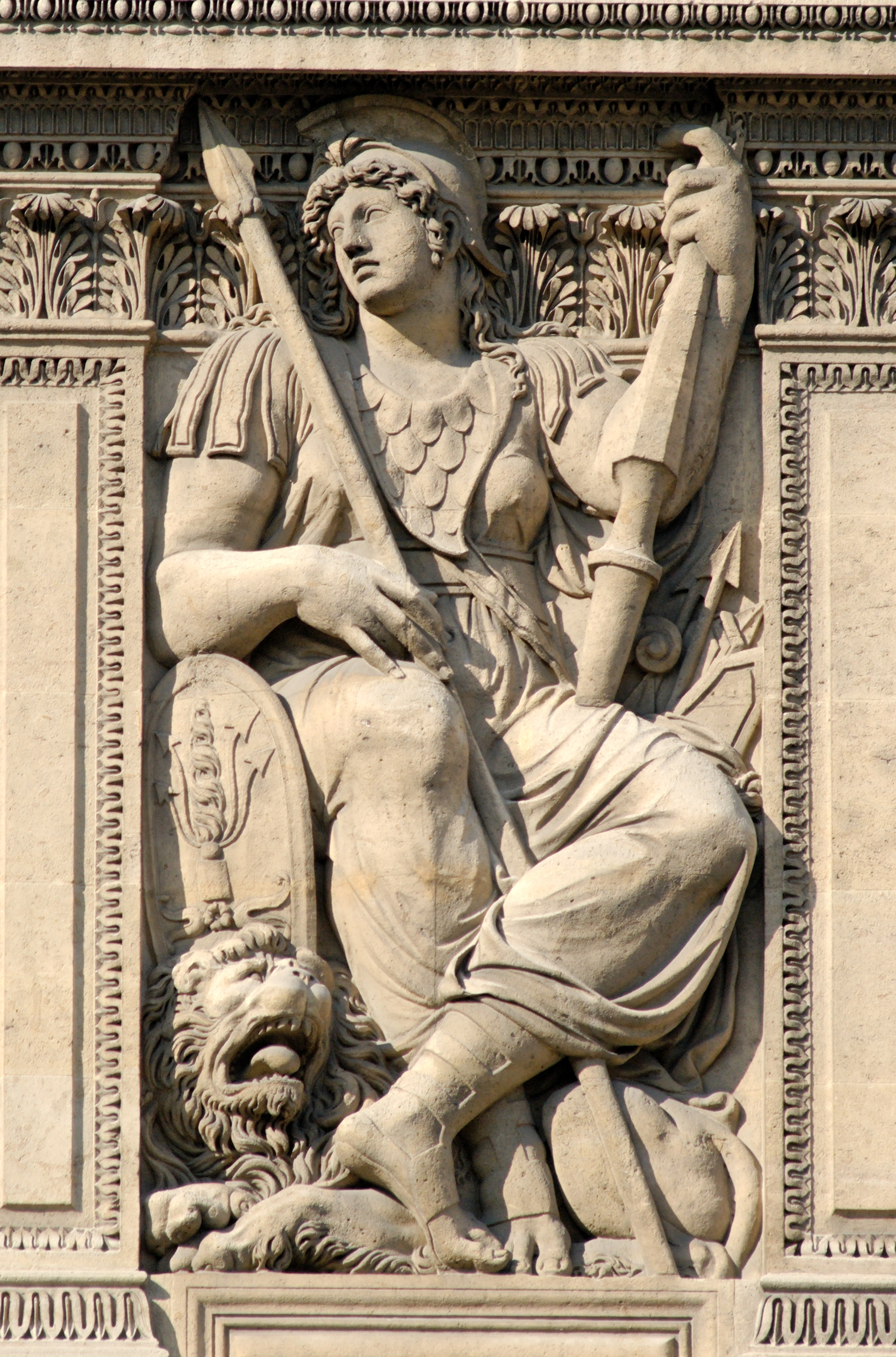 Bellona (Roman goddess of war), by Jean Goujon. Relief to the right of the attic-storey window of the central avant-corps of the east facade of the Lescot wing, the left part of the west façade of the Cour Carrée, in the Louvre Palace, Paris.